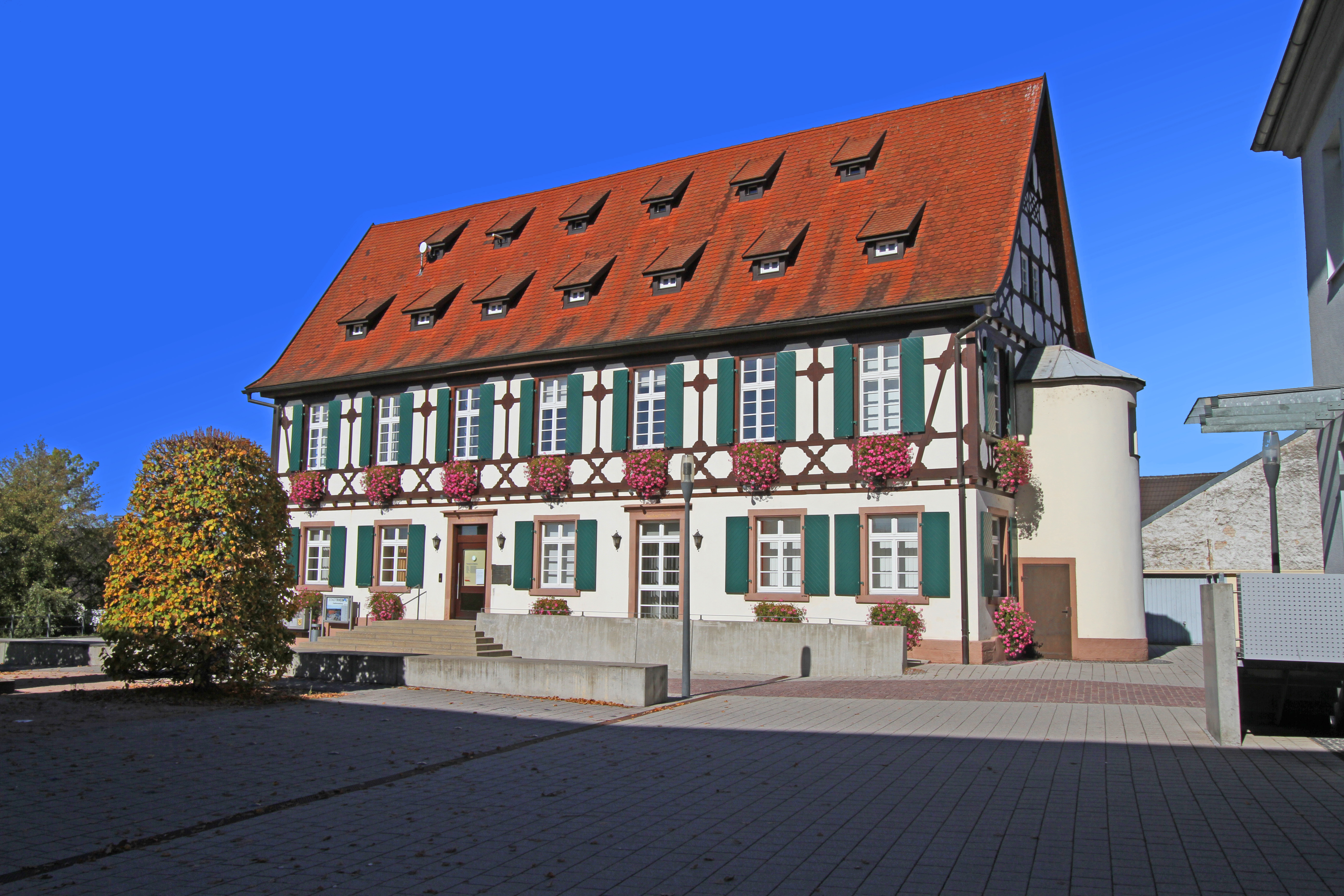 Town hall of Rheinau (Baden) in Freistett.